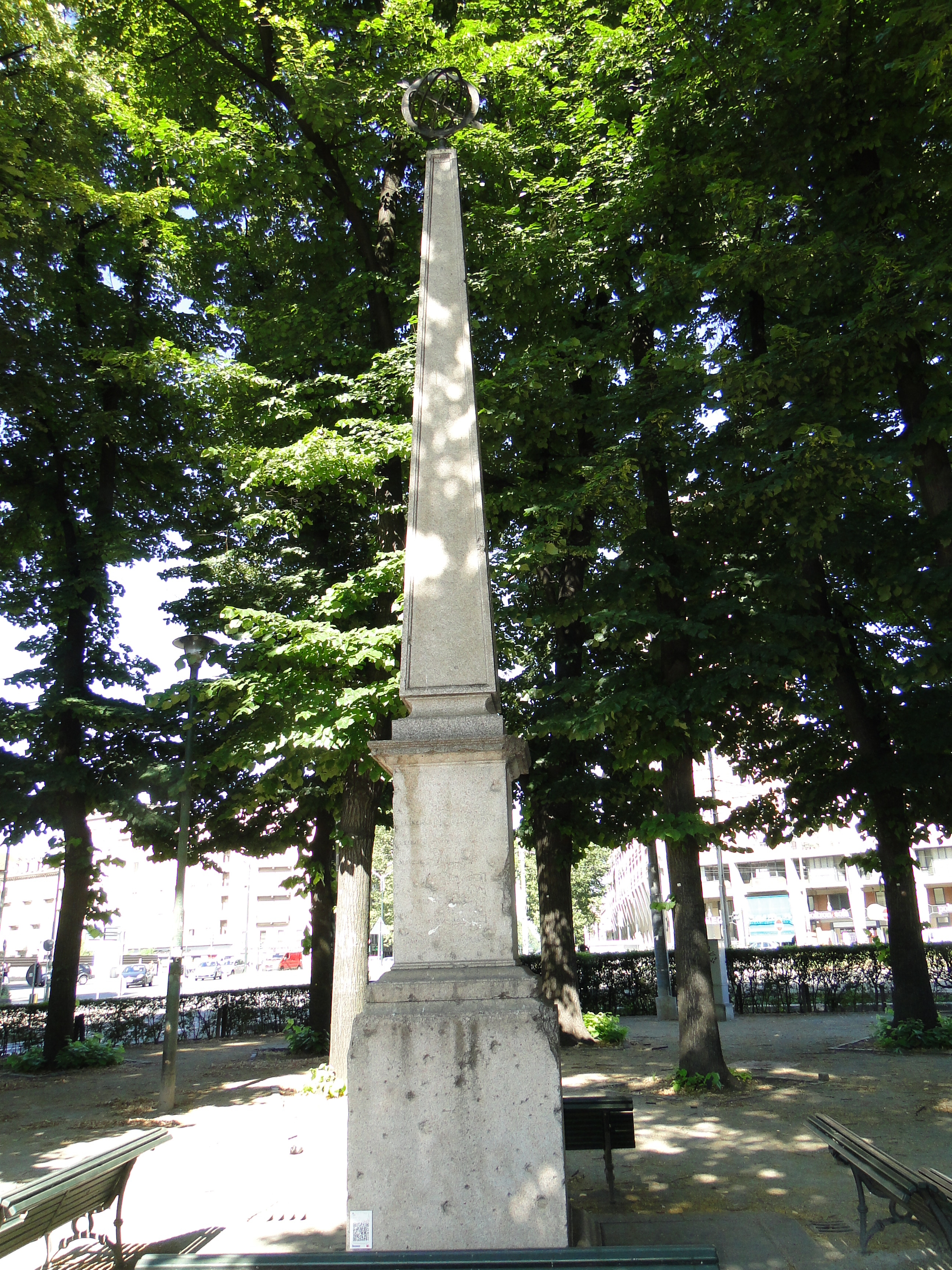 Geodesic obelisk in Piazza Statuto (Turin)